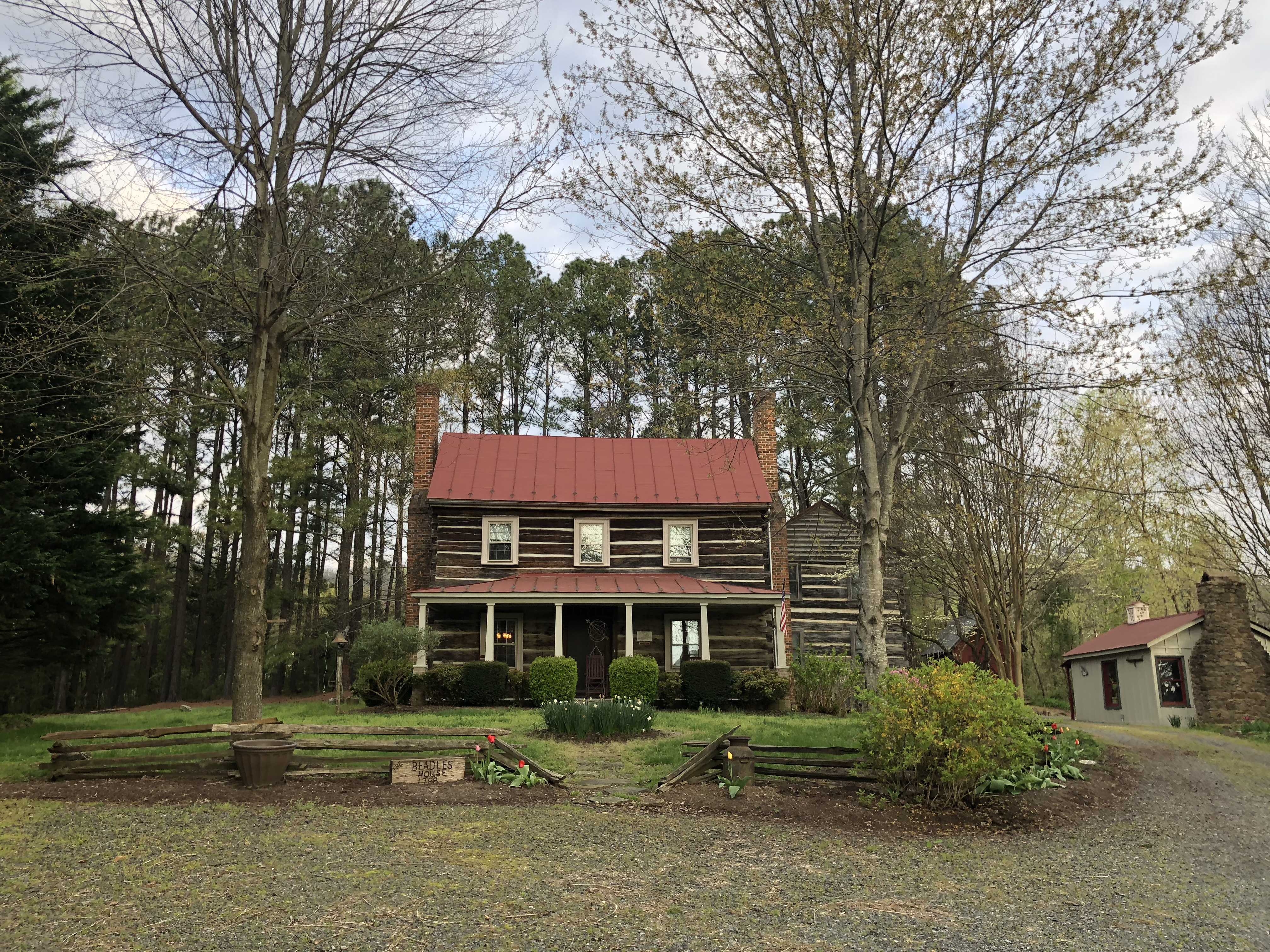 This is a picture of The Beadles House, a historic home in Greene County, VA.